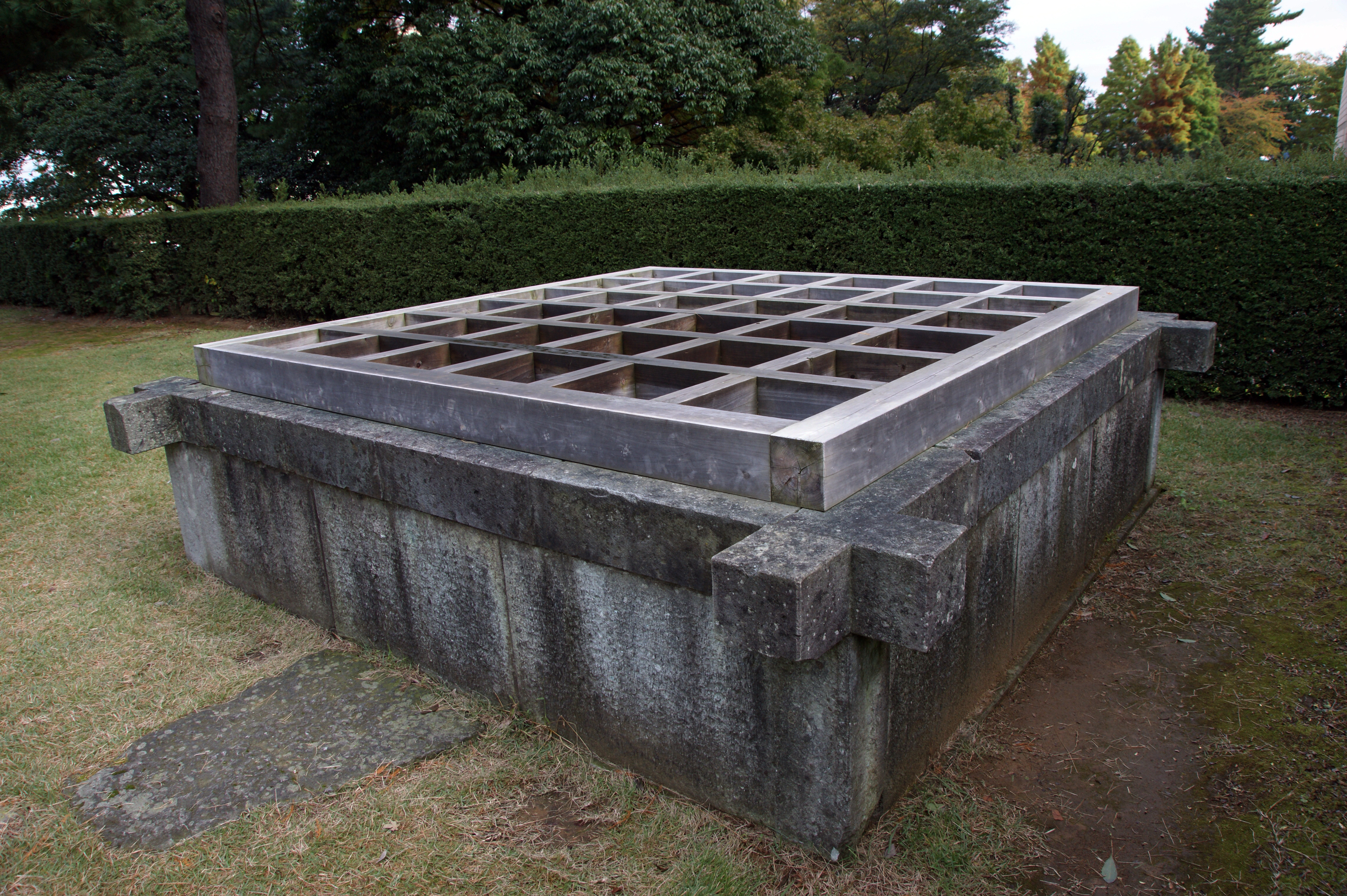 Fukui Castle, Fukui, Fukui prefecture, Japan